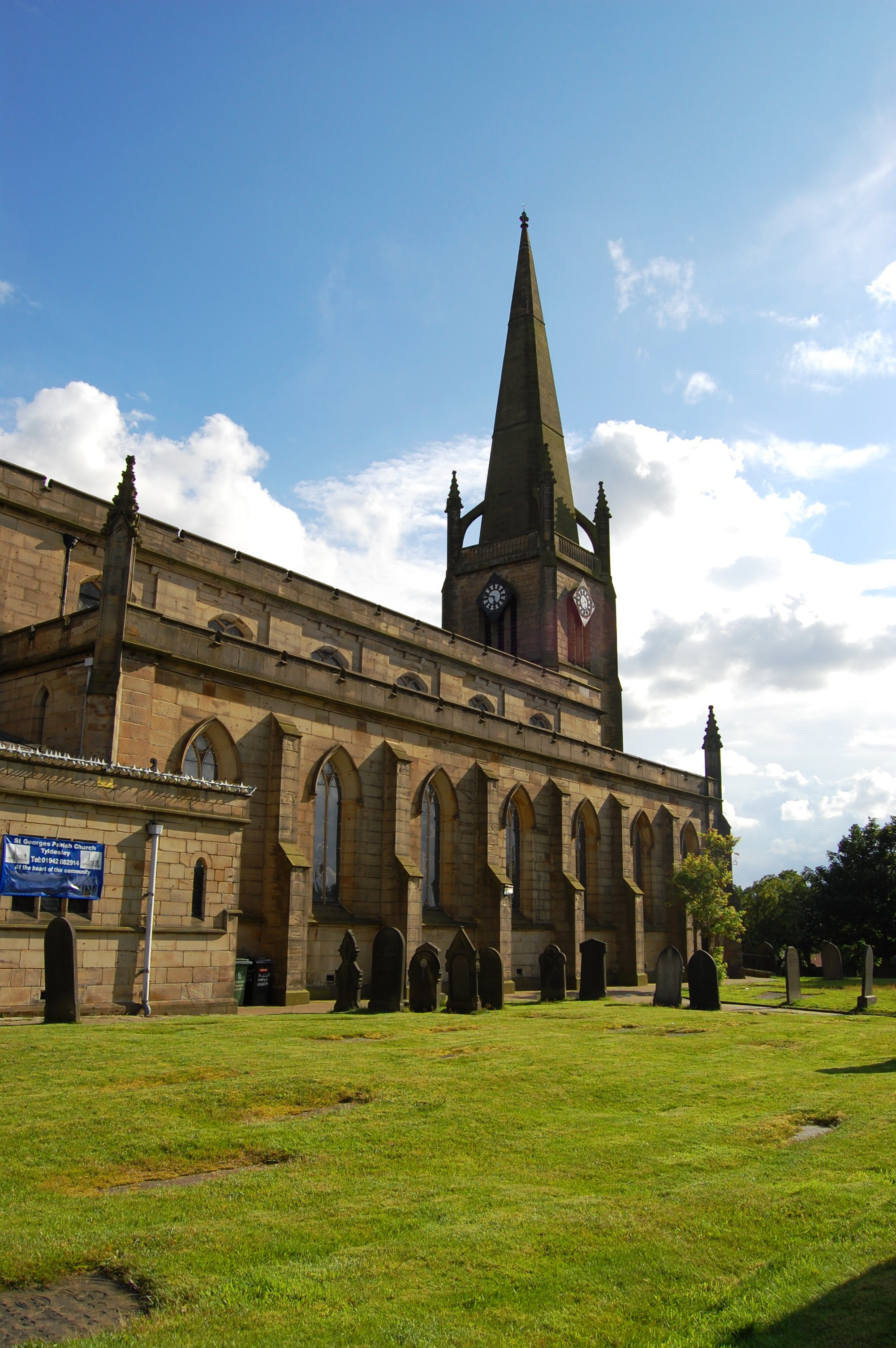 St George's parish church, in Tyldesley, Greater Manchester, England, seen from the northeast